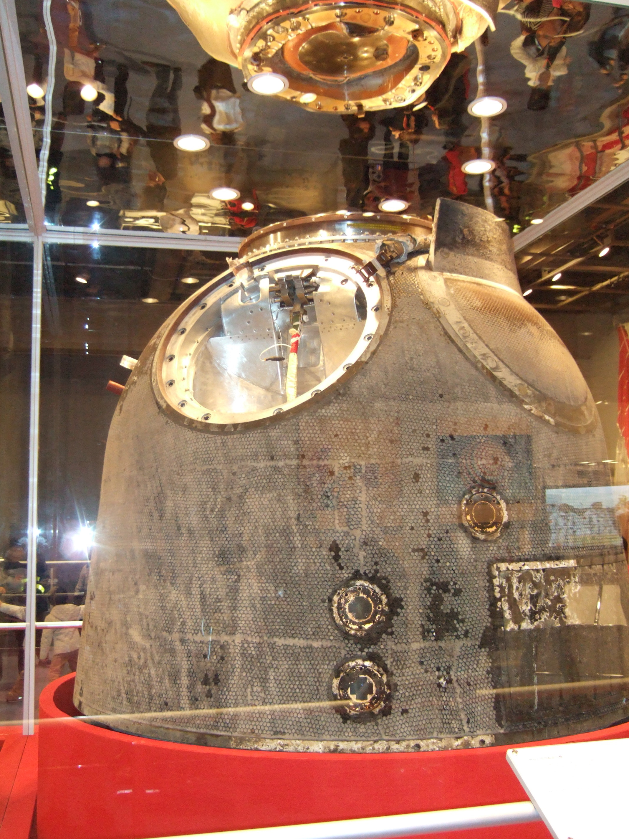 Space capsule of Shenzhou VII on exhibit in Hong Kong